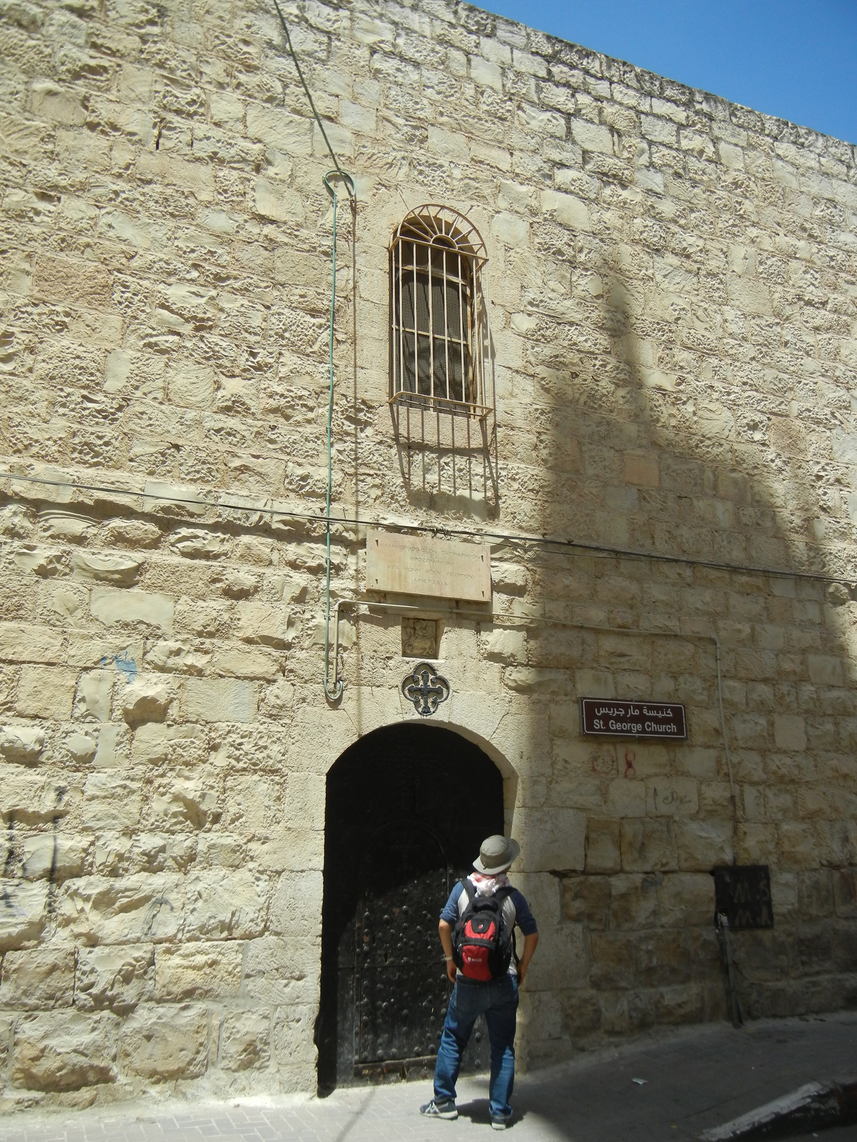 The Church of St.George in the town of Khadir in the West Bank, Historical Palestine